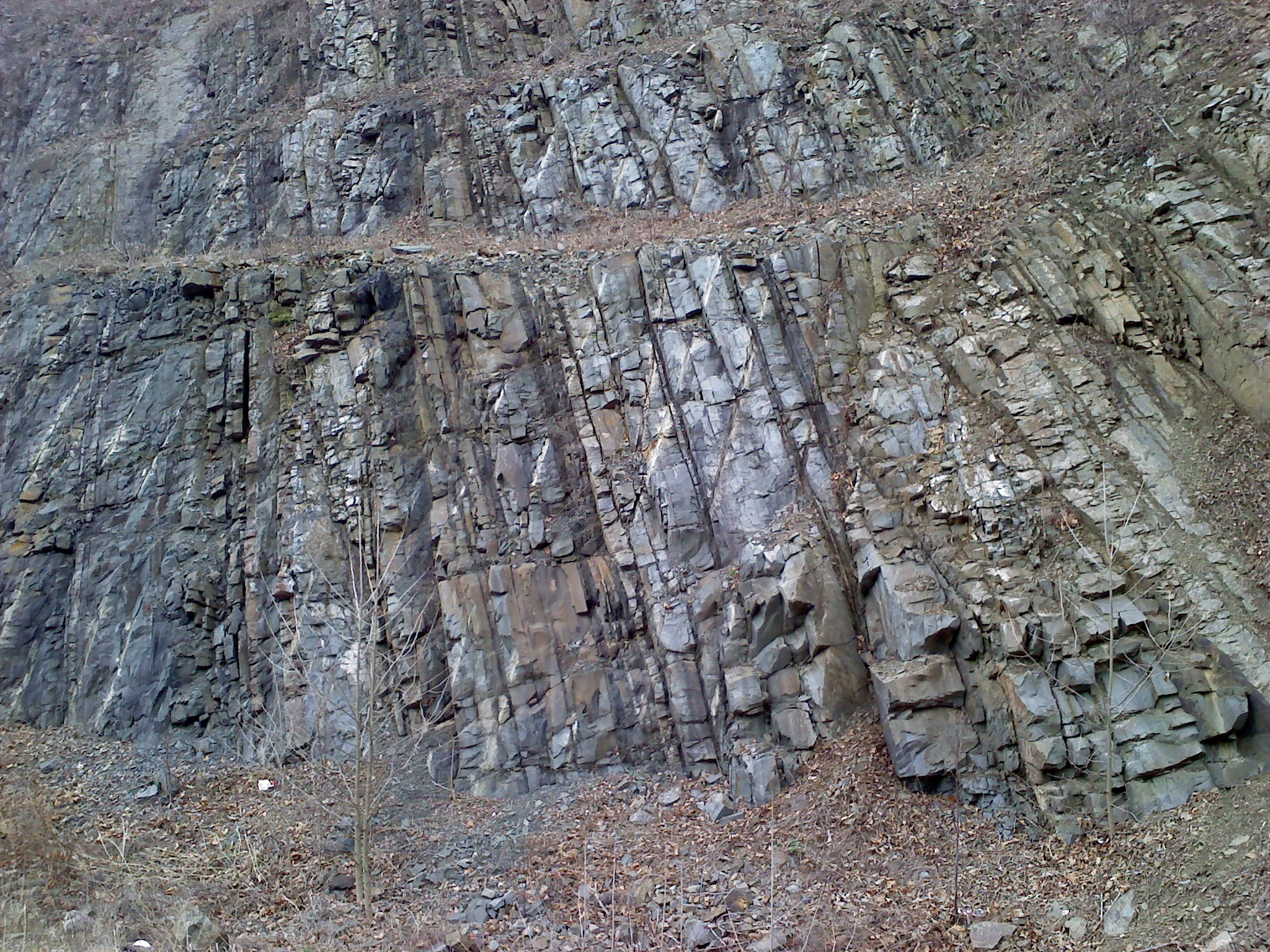 Outcrop of Reedsville Formation on south side of U.S. Route 522, Blacklog Gap, Huntingdon County, Pennsylvania. Near contact with overlying Bald Eagle Formation, and stratigraphic up is to the right. Facing South. April 2, 2011.